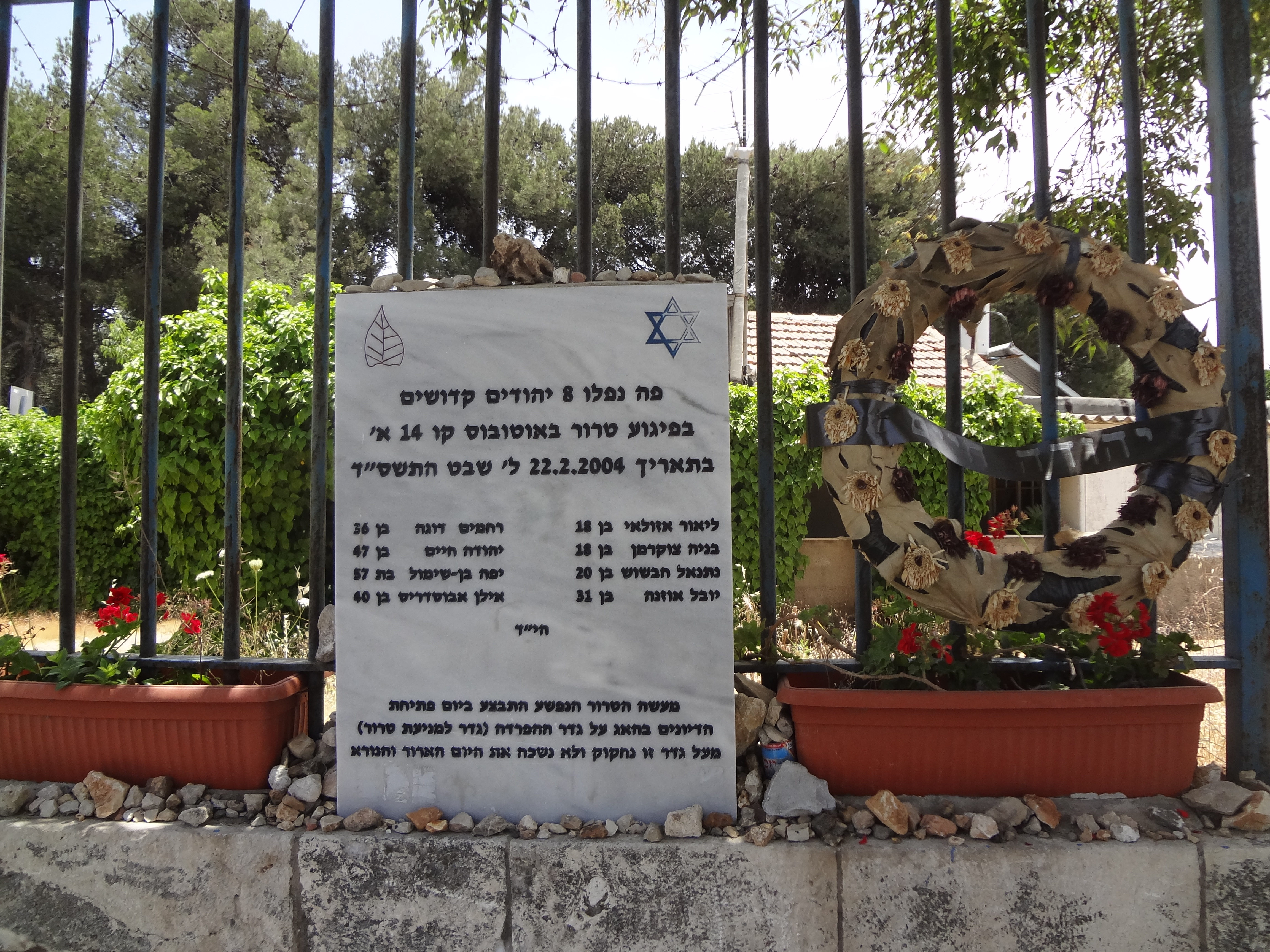 A memorial plaque to the victims of the liberty bell park bus bombing. The plaque is located on derech beit lechem, across the street from the southern end of the park.